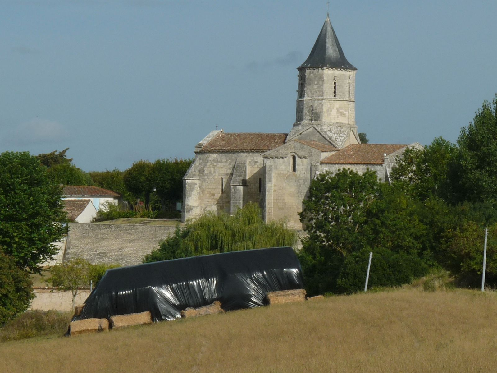 church of Arces (Charente-Maritime), SW France